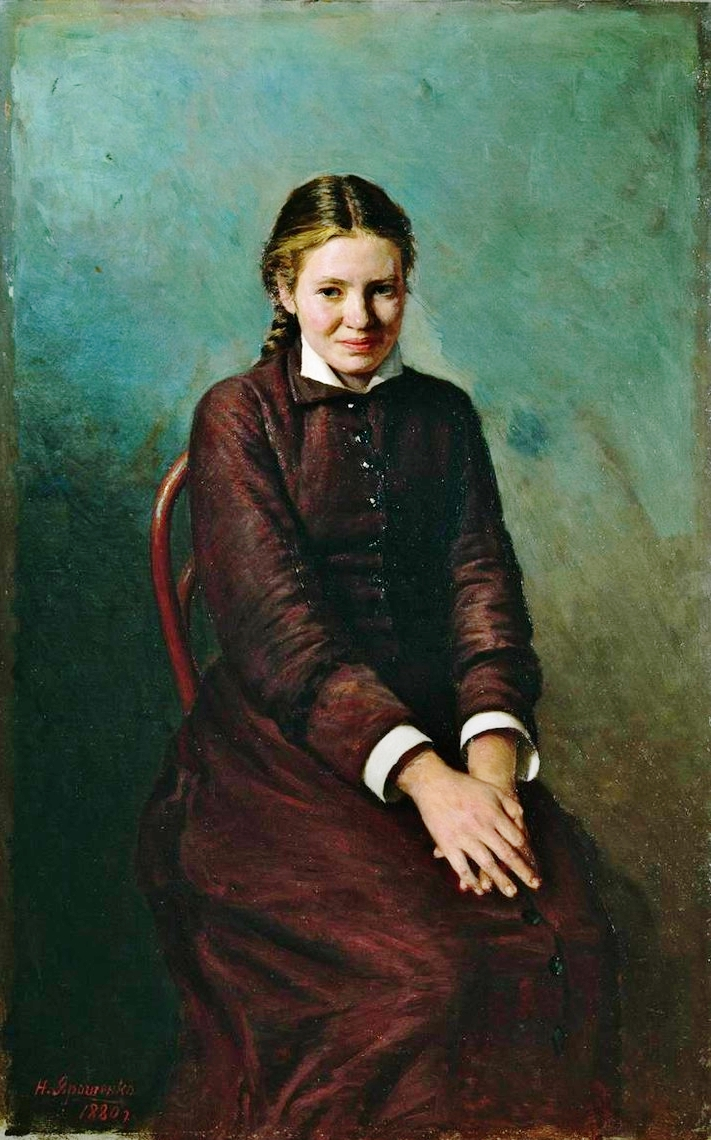 Female student.